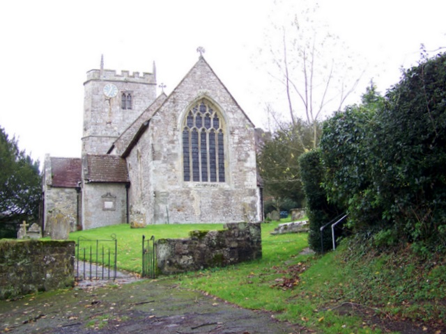 St Mary's parish church, East Knoyle, Wiltshire, seen from the east